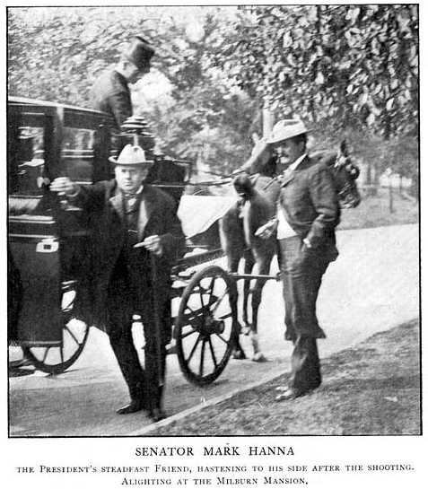 Senator Mark Hanna, friend of President William McKinley, arriving at Milburn Mansion.